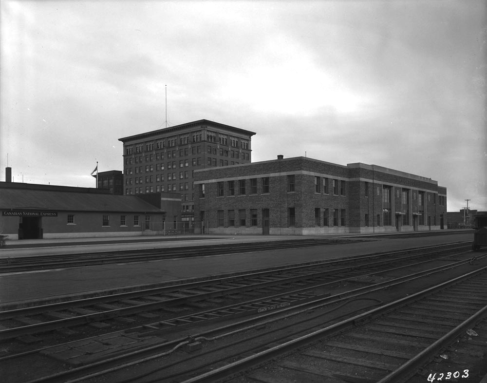 CNR station in Saskatoon circa 1940, shortly after it opened. (building demolished in 1960s)